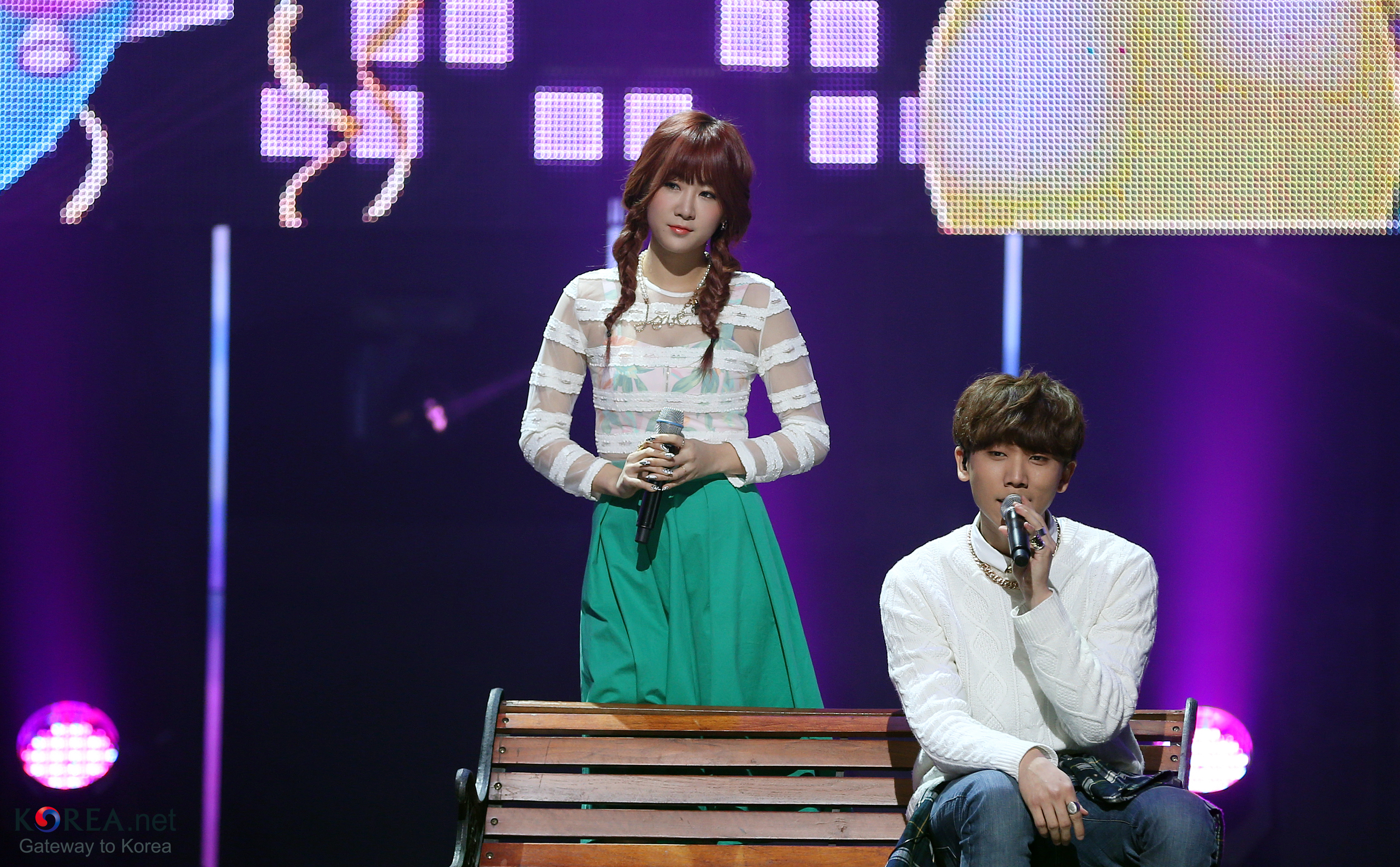 Mcountdown Junggigo x Soyou(Sistar) ‘Some’ CJ E&M Center, Sangam-dong, Mapo-gu, Seoul 2014.03.06. Ministry of Culture, Sports and Tourism Korean Culture and Information Service ( Jeon Han 엠카운트다운 생방송 정기고 x 소유(시스타) ‘썸’ 2014-03-06 CJ E&M 센터 문화체육관광부 해외문화홍보원 코리아넷 전한